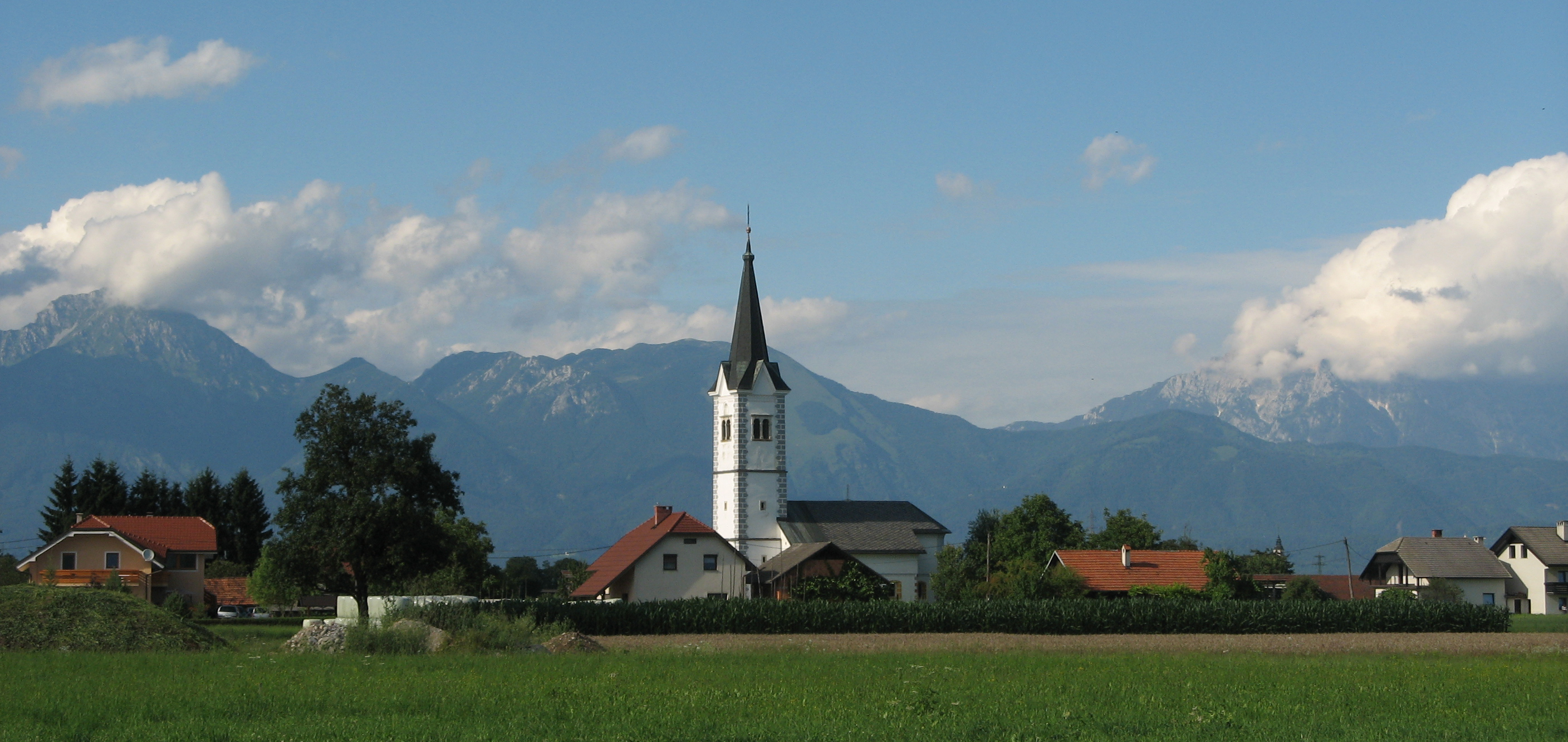 The village of Spodnje Bitnje near Kranj in Slovenia